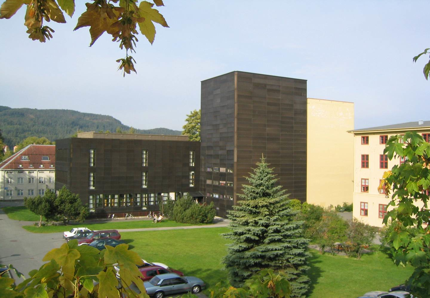 The most recent part of The Gunnerus Library of The NTNU University Library, Trondheim, Norway. Erected 1975. Architects: Anne and Einar Myklebust.